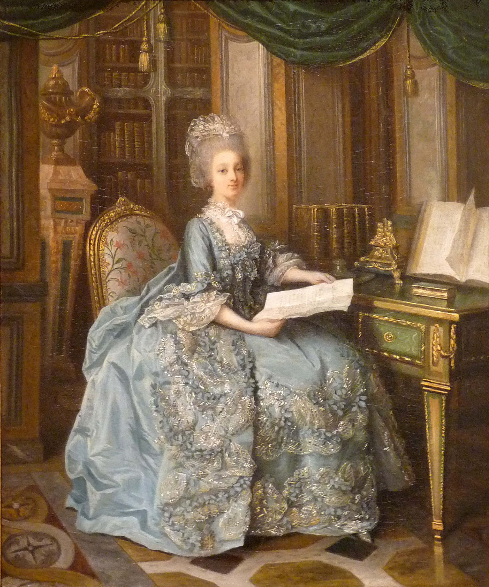 Previously thought to be a portrait of Marie-Antoinette, the painting's subject has been identified as Madame Sophie, because of her library's distinctive parquet floor.